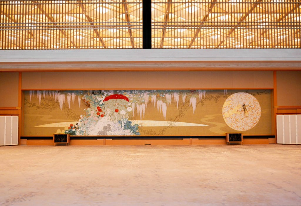 Fuji no Ma in the Kyoto State Guest House